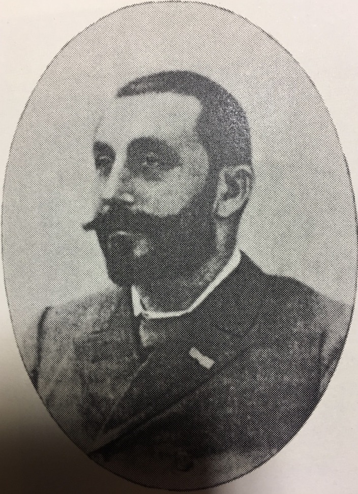 Arthur Hodister (1847-1892), Belgian ivory trader and explorer